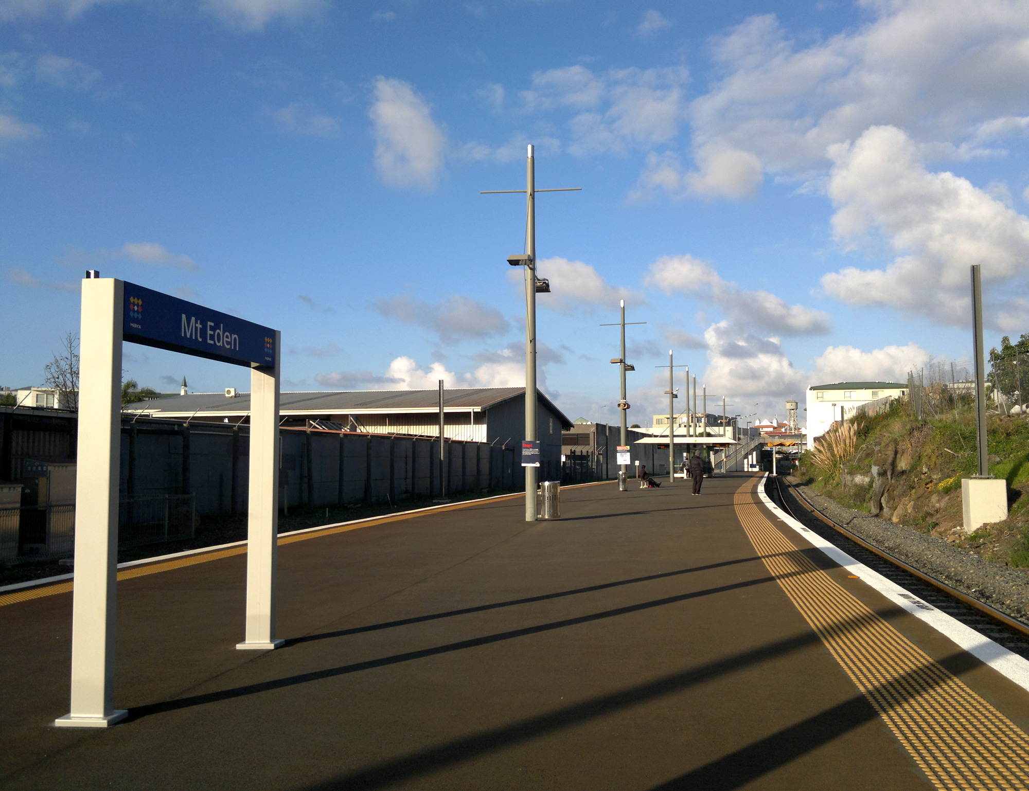 The view of Mount Eden Railway Station from the western end of its platform. The station bares the defunct Maxx branding, and is yet to have electrification work completed.